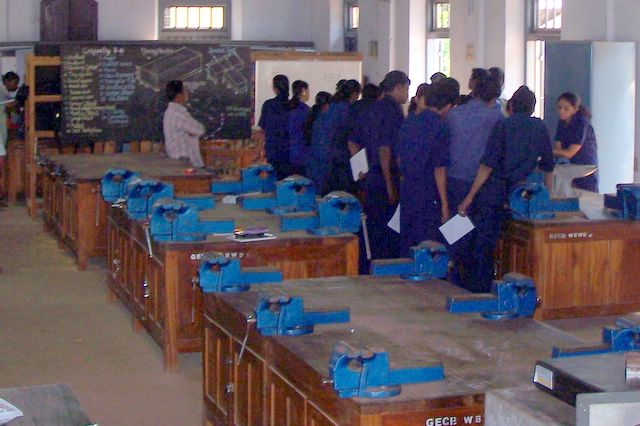 Afzal 09:41, 18 July 2006 (UTC)